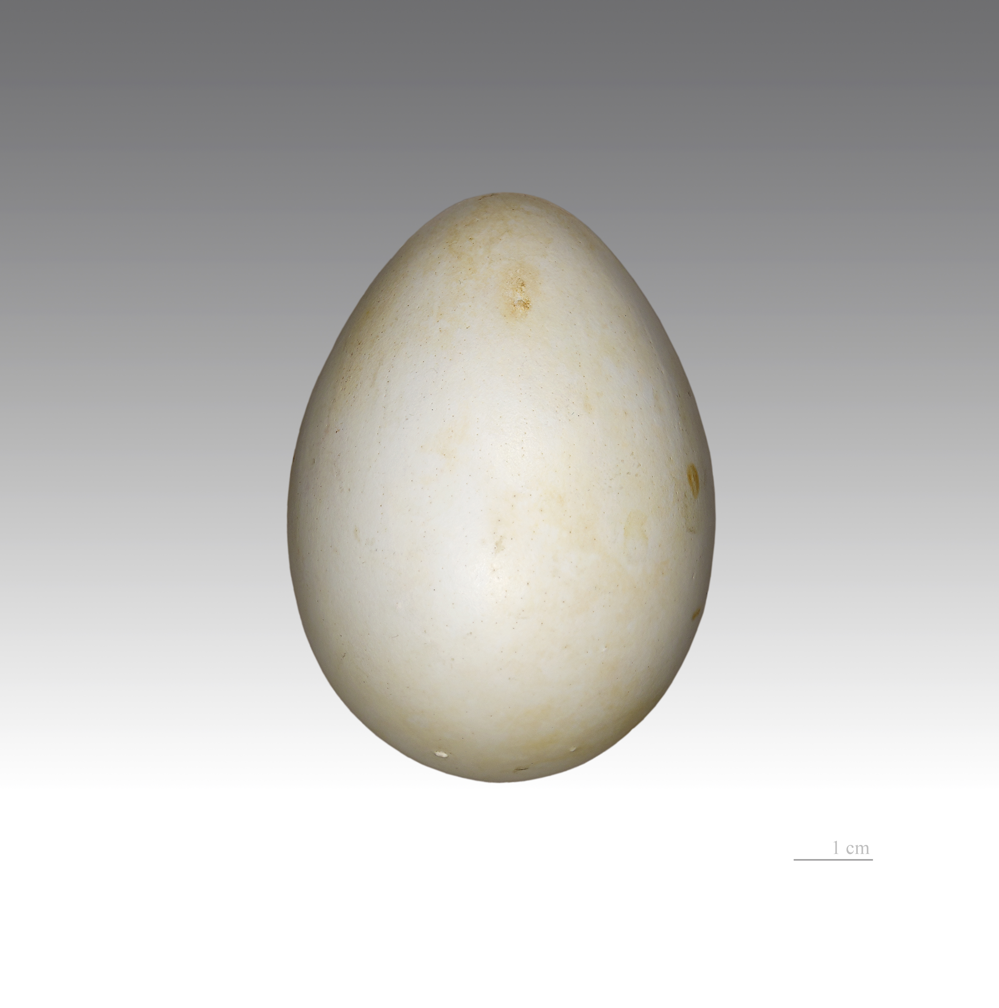 Egg of Western Rockhopper Penguin. Collection of Vincent Bretagnolle /Jacques Perrin de Brichambaut. Locality: Mayes Islands, Kerguelen Islands, France.